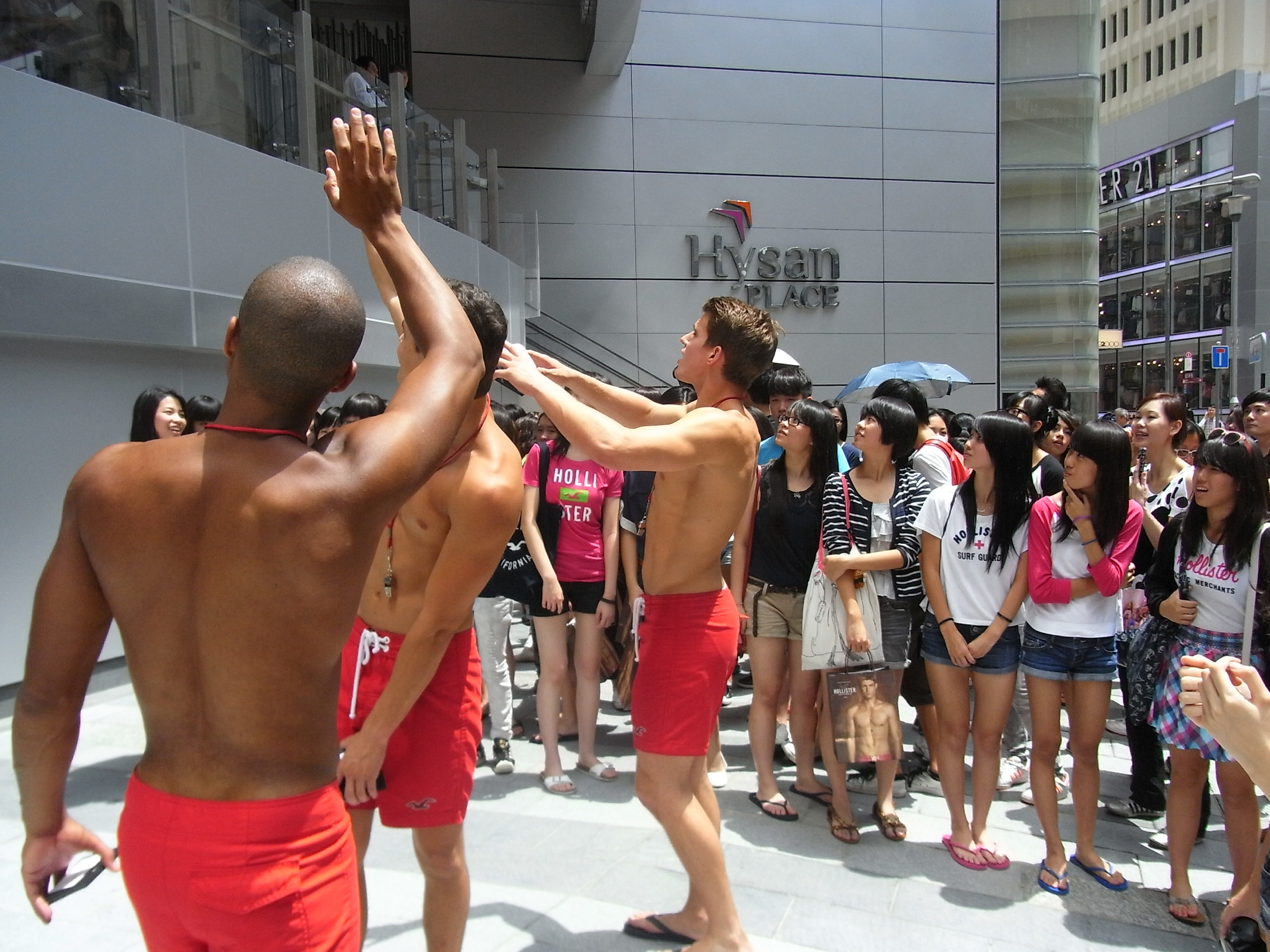 落區 Photography @ fans meeting, Hysan Place, Kai Chiu Road, Causeway Bay, Hong Kong